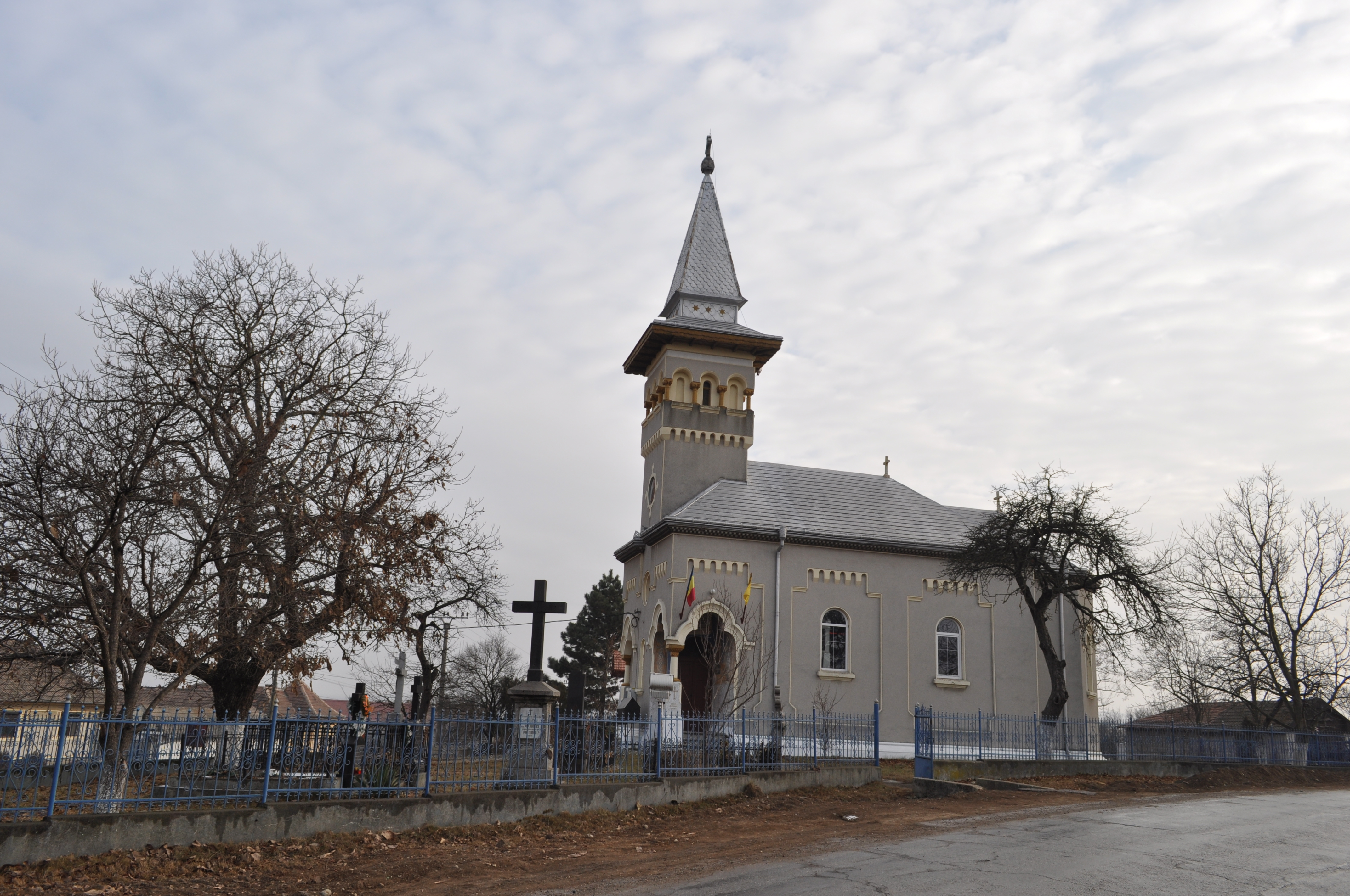 St. Nicholas Church in Moiad was built by the Greek-Catholic community in 1936. The church was consecrated on May 23, 1937 by Valeriu Traian Frențiu, the bishop of the Greek Catholic Diocese of Oradea Mare. The Greek Catholic Church in Moiad was confiscated in 1948 and converted to Orthodox use.